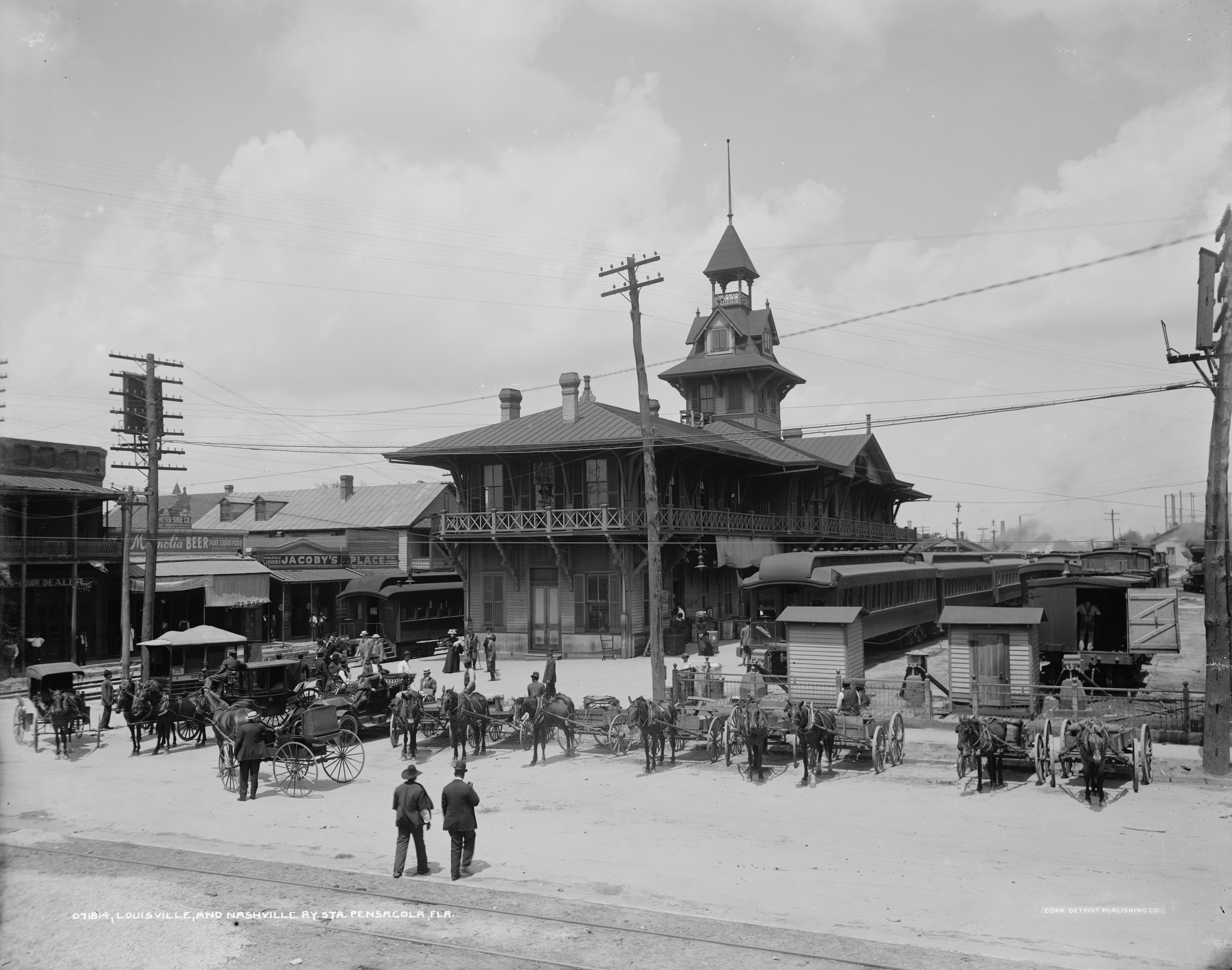 Title: Louisville and Nashville Ry. Sta., Pensacola, Fla. Related Names:Detroit Publishing Co. , copyright claimant Medium: 1 negative : glass ; 8 x 10 in. Part of: Detroit Publishing Company Photograph Collection Reproduction Number: LC-D4-71814 (b&w glass neg.) Call Number: LC-D4-71814 [P&P] Repository: Library of Congress Prints and Photographs Division Washington, D.C. 20540 USA Notes: "G 7020" on negative. Detroit Publishing Co. no. 071814. Gift; State Historical Society of Colorado; 1949.